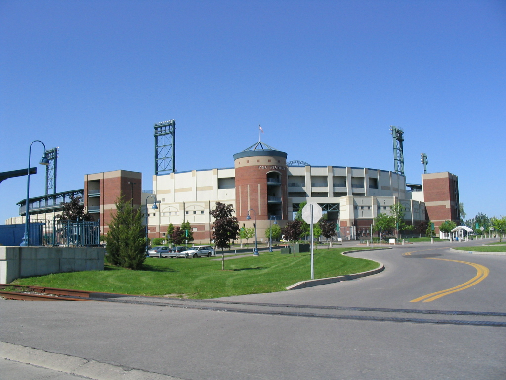 photo of Alliance Bank Stadium in Syracuse, NY, taken by me on May 19, 2004